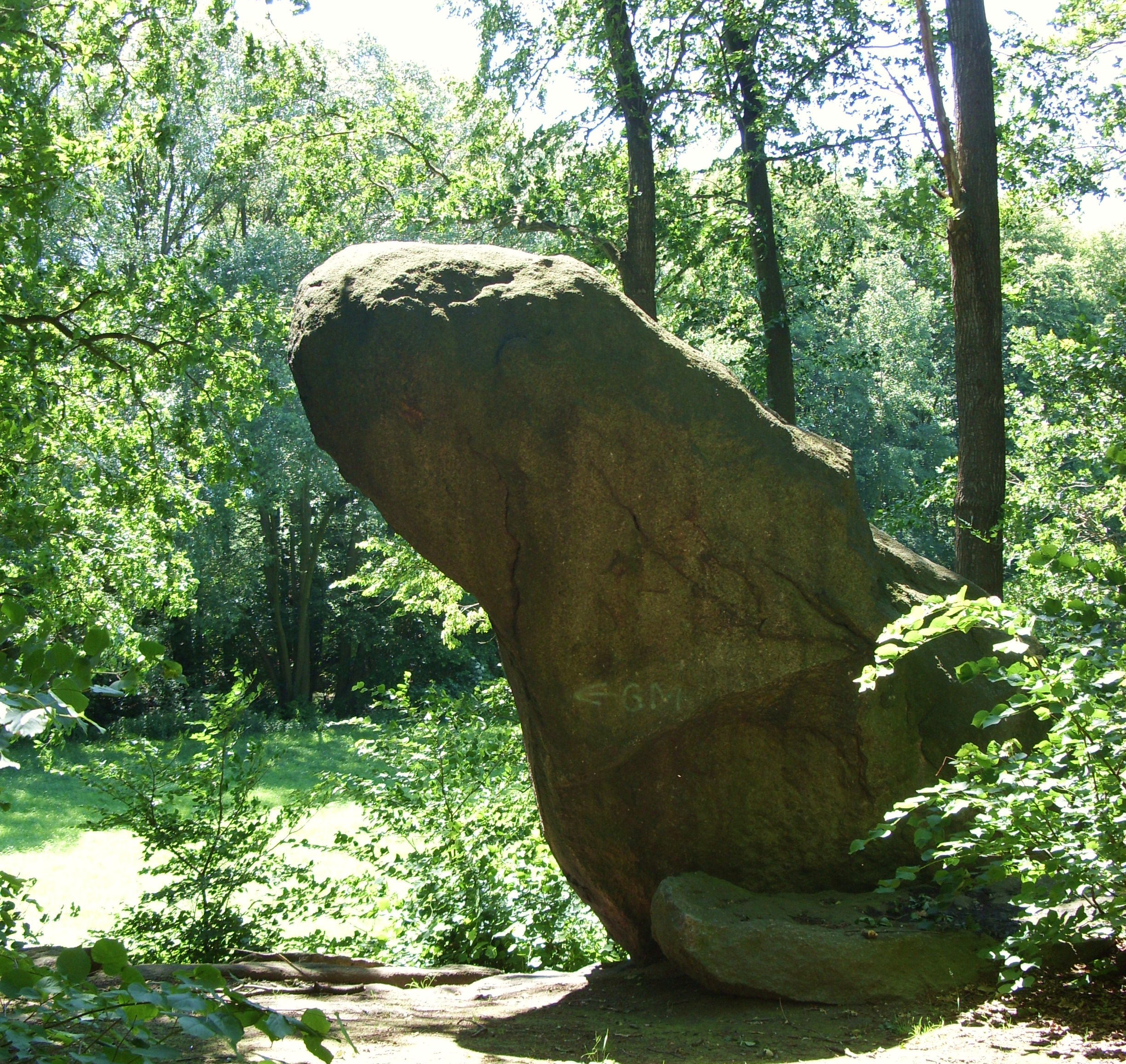 The "Frog stone" near Miltitz/Miłoćicy, Bautzen district.